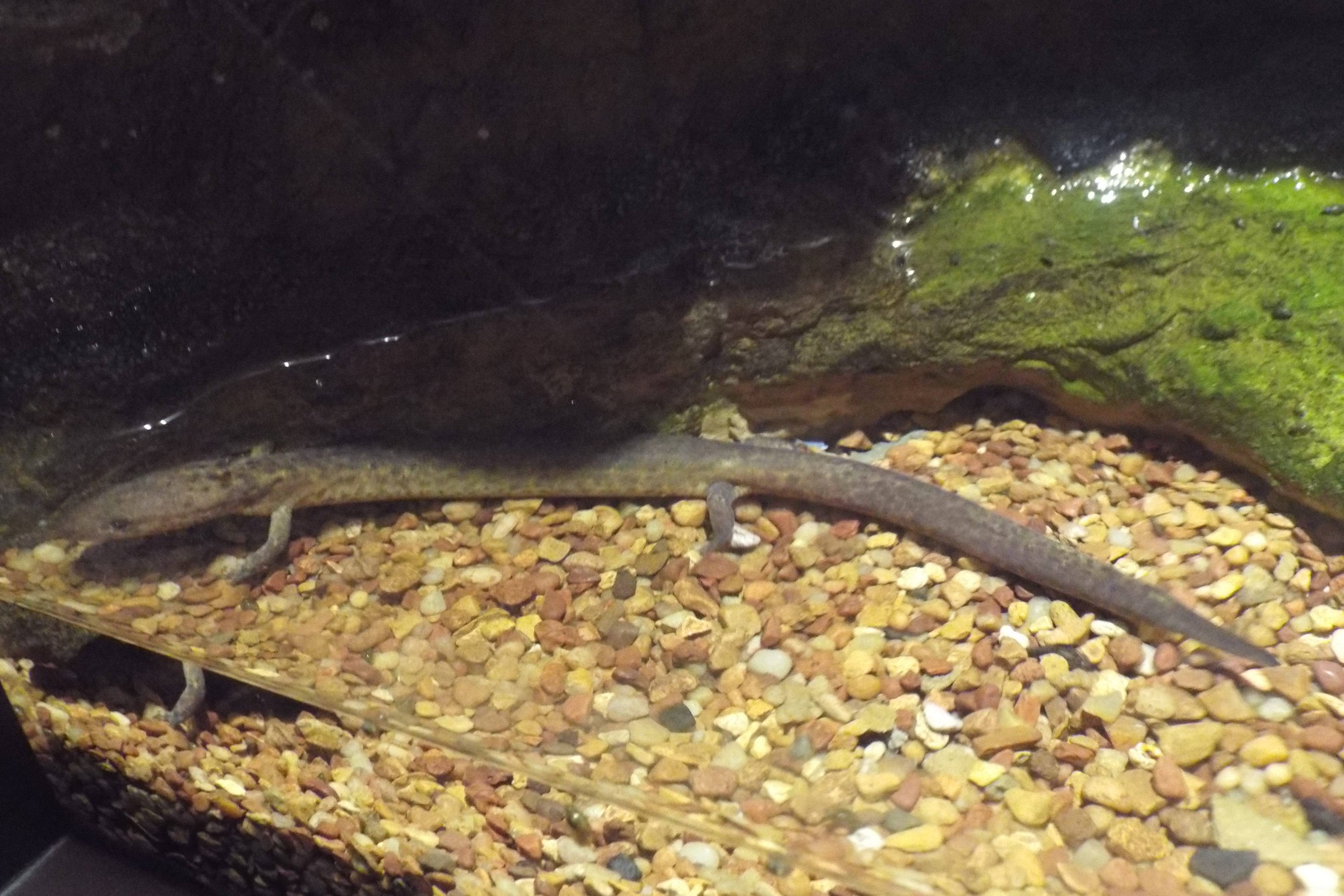 Gyrinophilus palleucus in the Tennessee Aquarium in Chattanooga, TN